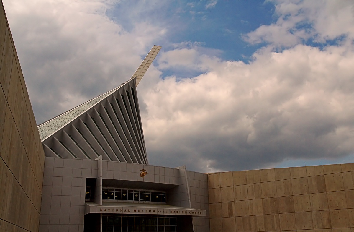 Exterior View of the Marine Corp Museum